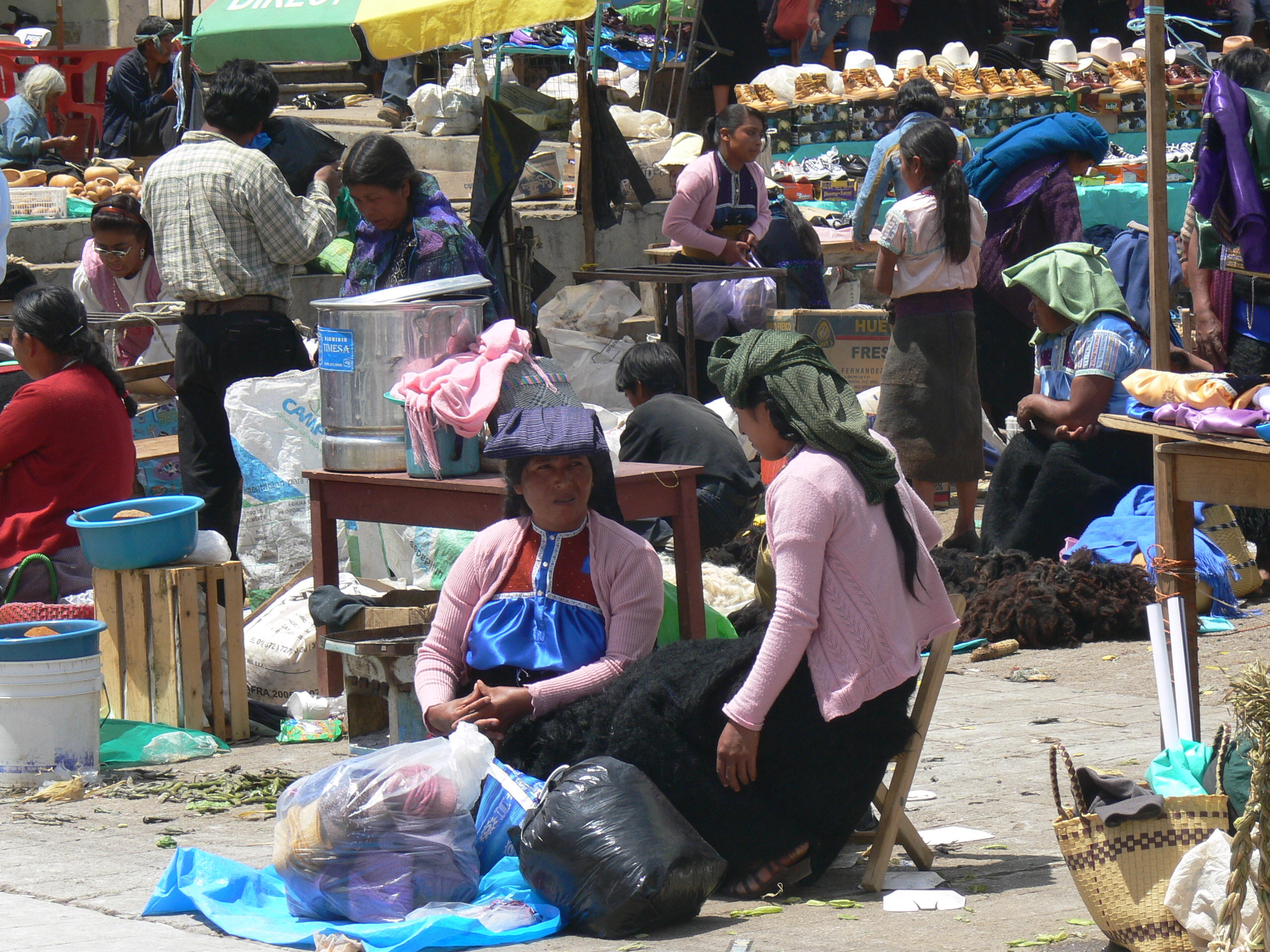 San Juan Chamula ( Chiapas ). Women at the market.